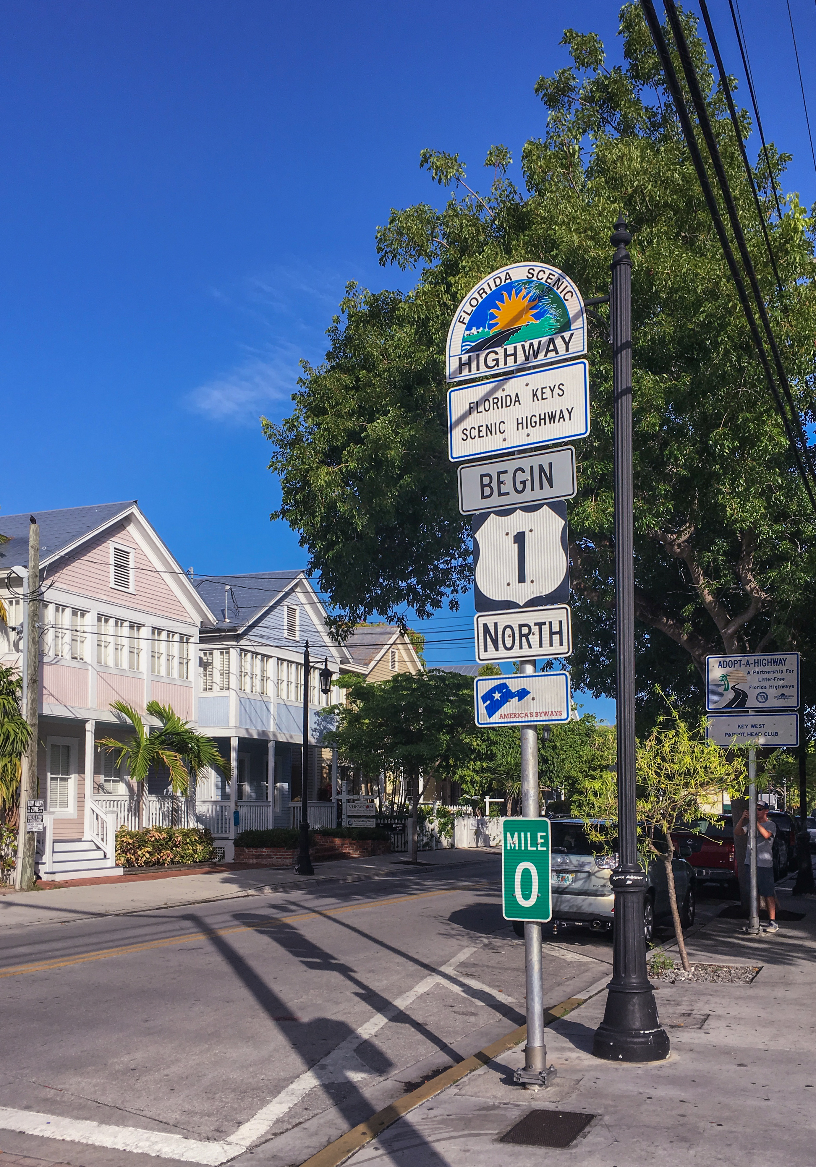 Road Sign to the beginning of U.S. Route 1 in Key West, starting at Whitehead St, crossing Fleming St